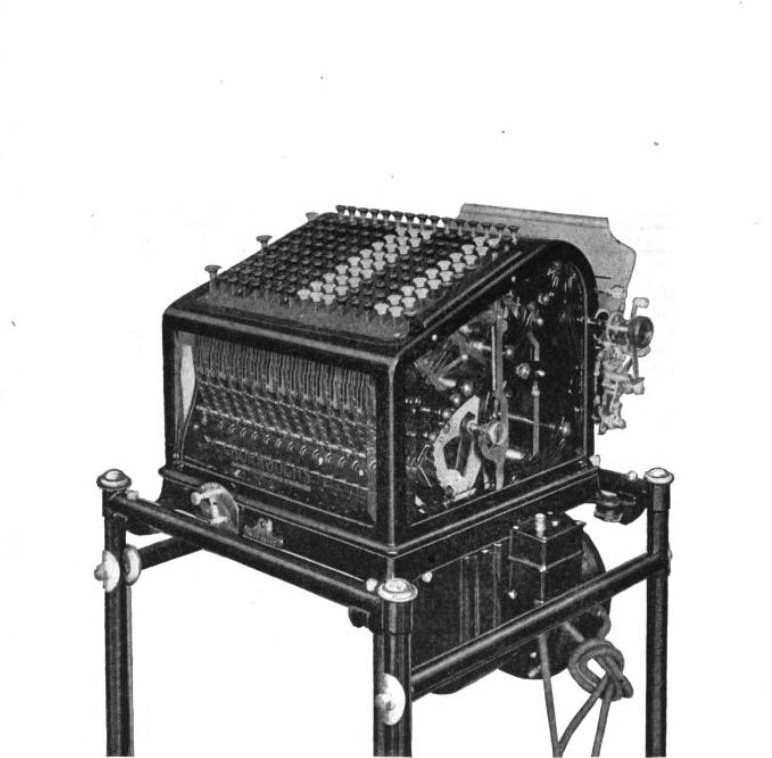 Picture of adding machine model that can be used to type transit letters using numerical code of the American Banker's Association.